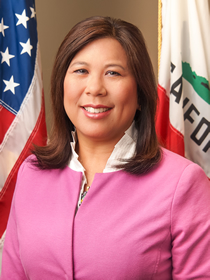 Official State Controller portrait of Betty Yee.